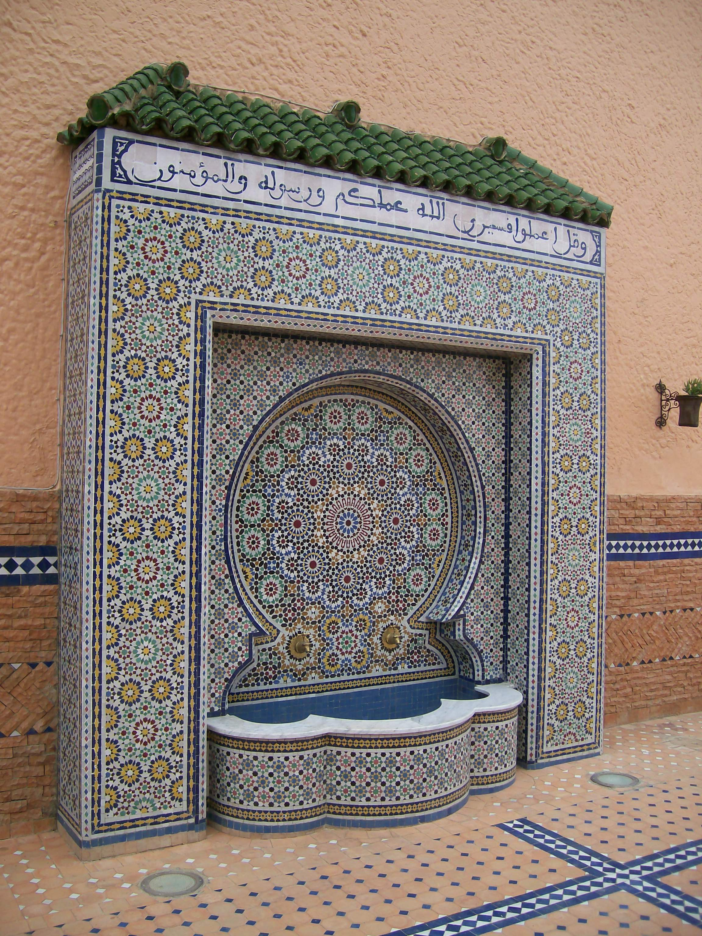 A traditional Moroccan fountain formed with a series of small colored tiles in mosiac patterns. This example was made by the Chamber of Traditional Artisans in Meknes. The inscription at the top reads "It is said they work so that God will see their works and the Messenger and the believers".